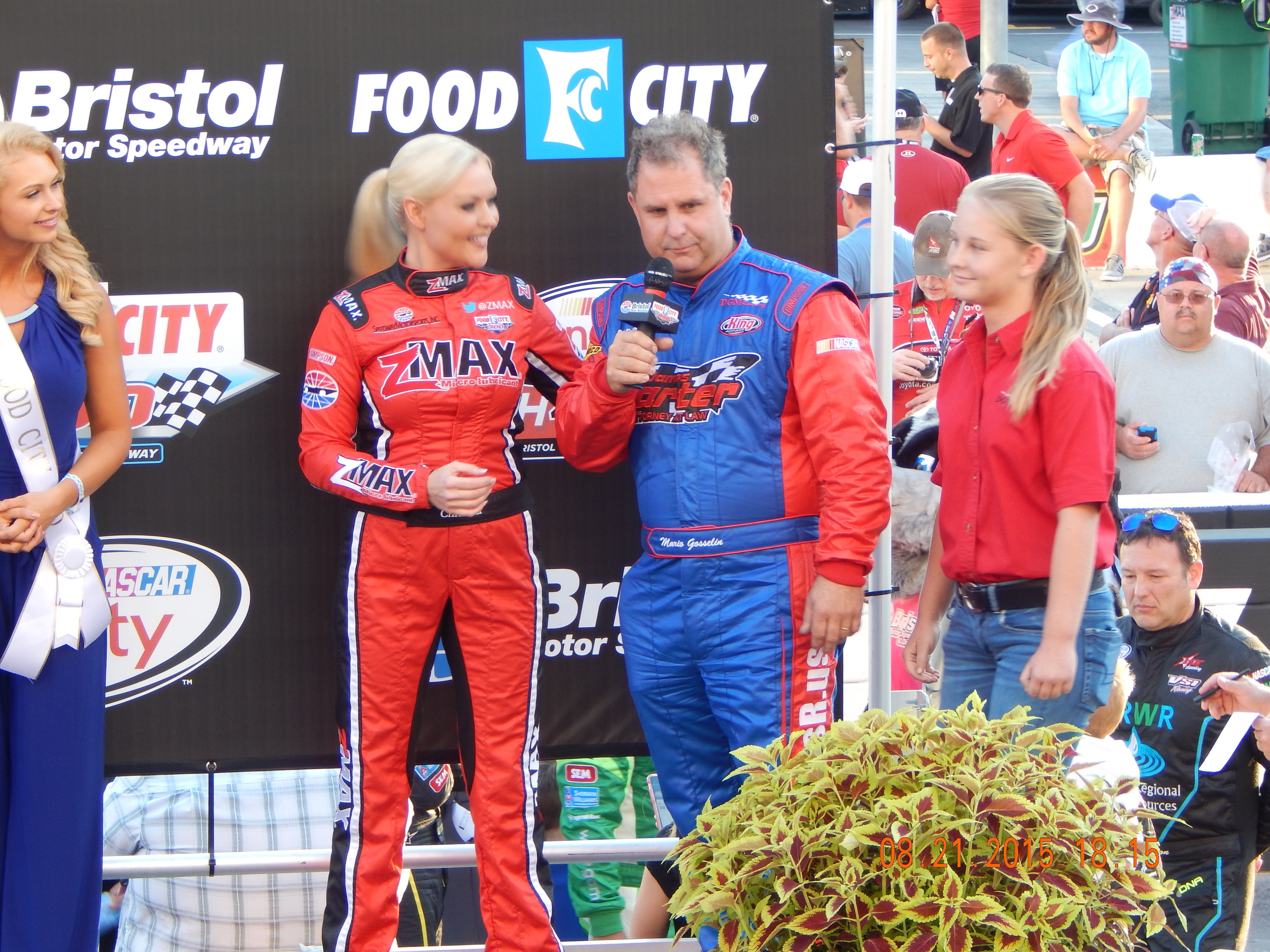 Mario Gosselin being introduced at Bristol Motor Speedway for the 2015 Food City 300.